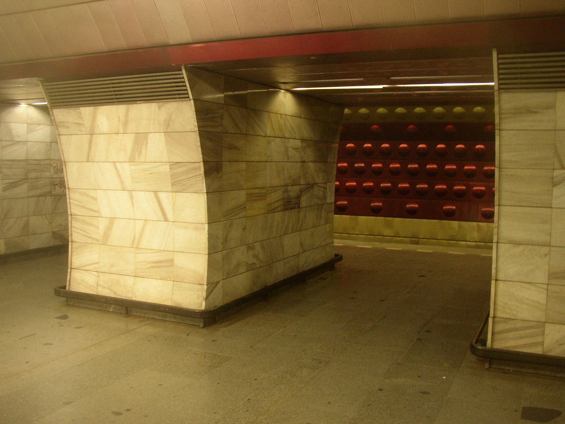 Flora station of Prague Metro. Pillars between central aisle and platforms.